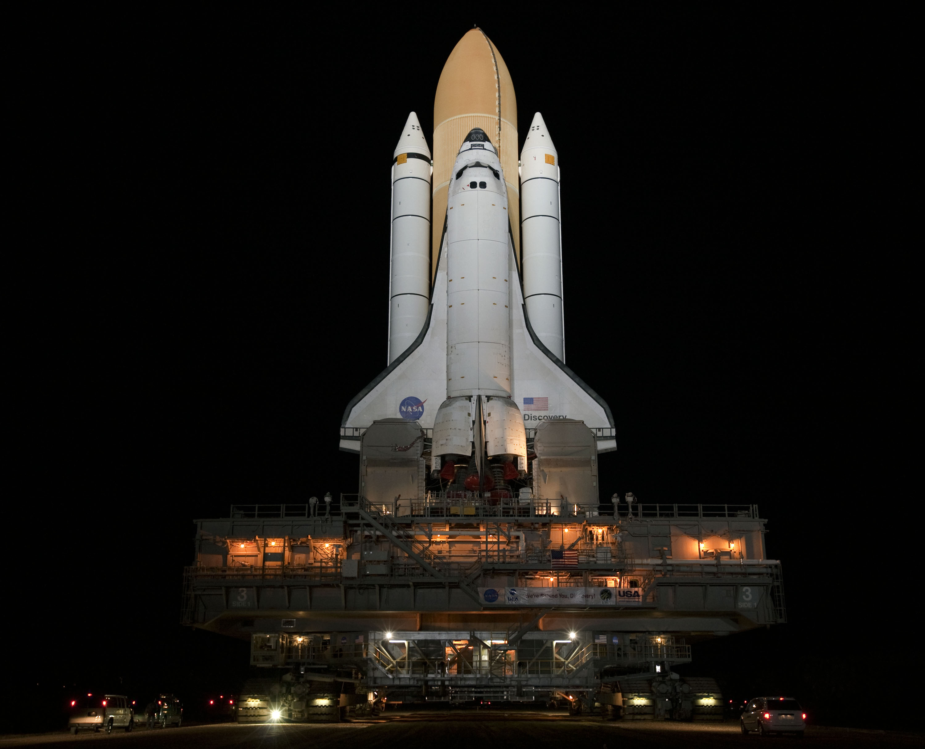 CAPE CANAVERAL, Fla. – Space shuttle Discovery makes its grand entrance into the night at NASA's Kennedy Space Center in Florida as it rolls out of the Vehicle Assembly Building to begin its 3.4-mile trip to Launch Pad 39A. First motion was at 11:58 p.m. EST March 2. Rollout is a significant milestone in launch processing activities. The seven-member STS-131 crew will deliver the multi-purpose logistics module Leonardo, filled with resupply stowage platforms and racks, to the International Space Station aboard Discovery. Targeted for launch on April 5, STS-131 will be the 33rd shuttle mission to the station and the 131st shuttle mission overall. For information on the STS-131 mission and crew, visit